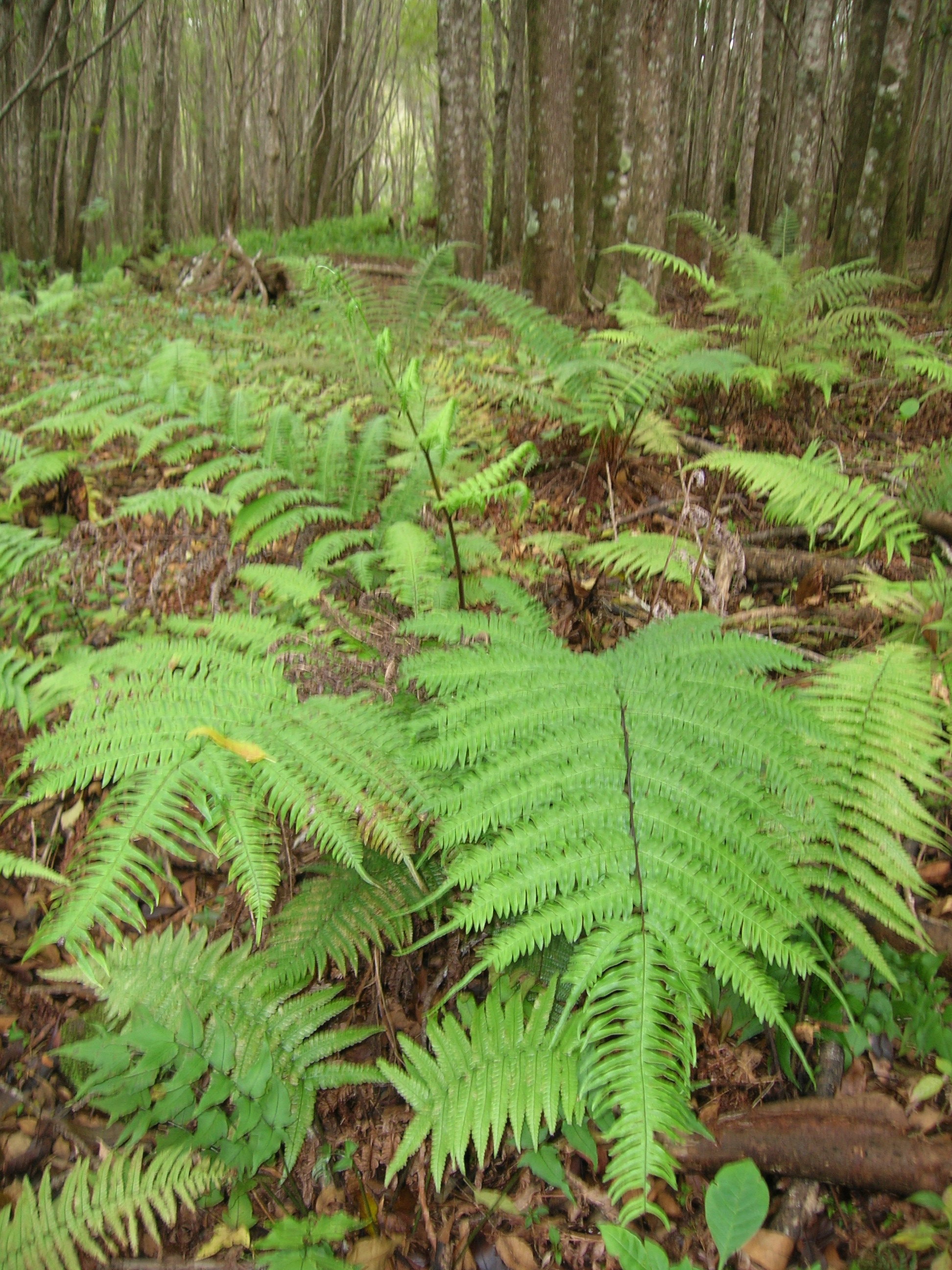 Pteris excelsa (habit in windrow). Location: Maui, Makawao Forest Reserve